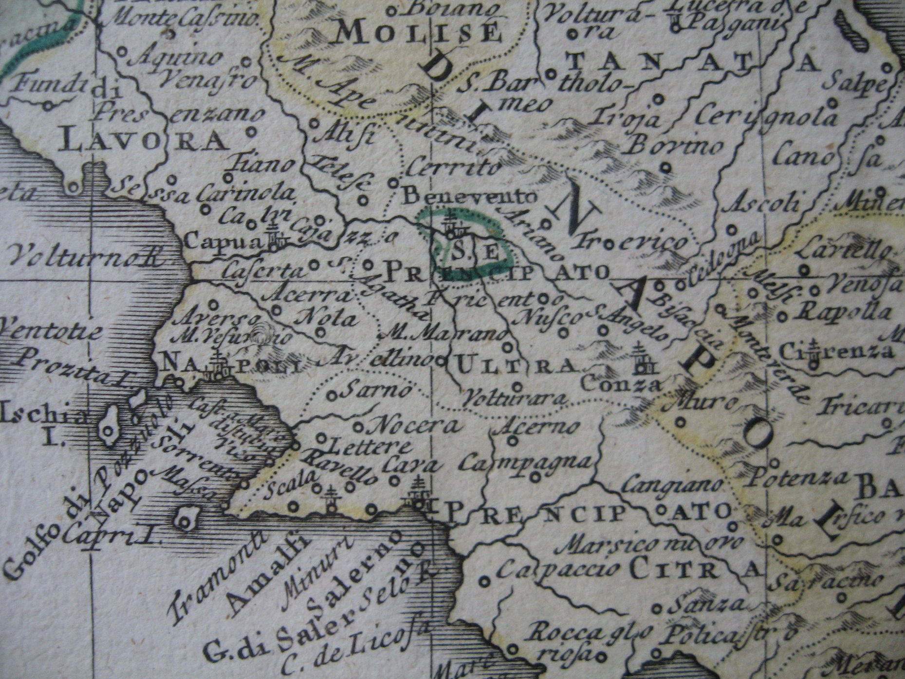 The principality of Benevento in the 18th century. Benevento, enclaved within the Kingdom of Naples, has been part of the Papal States since the 11th century. "S.E." stands for Stato Ecclesiastico (Ecclesiastical State or State of the Church).Cropped from a map of Italy published by Homann Heirs in 1742.